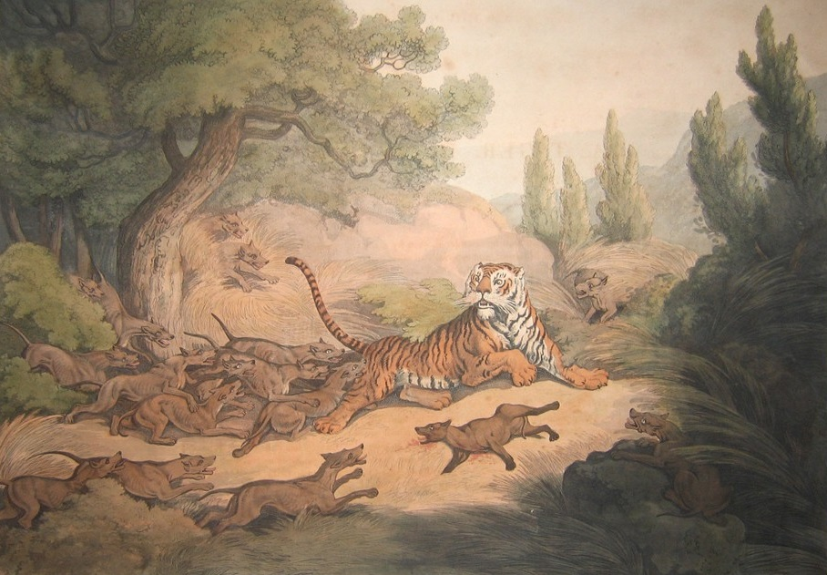 Print depicting a tiger being attacked by dholes from Samuel Howett & Edward Orme, Hand Coloured, Aquatint Engravings